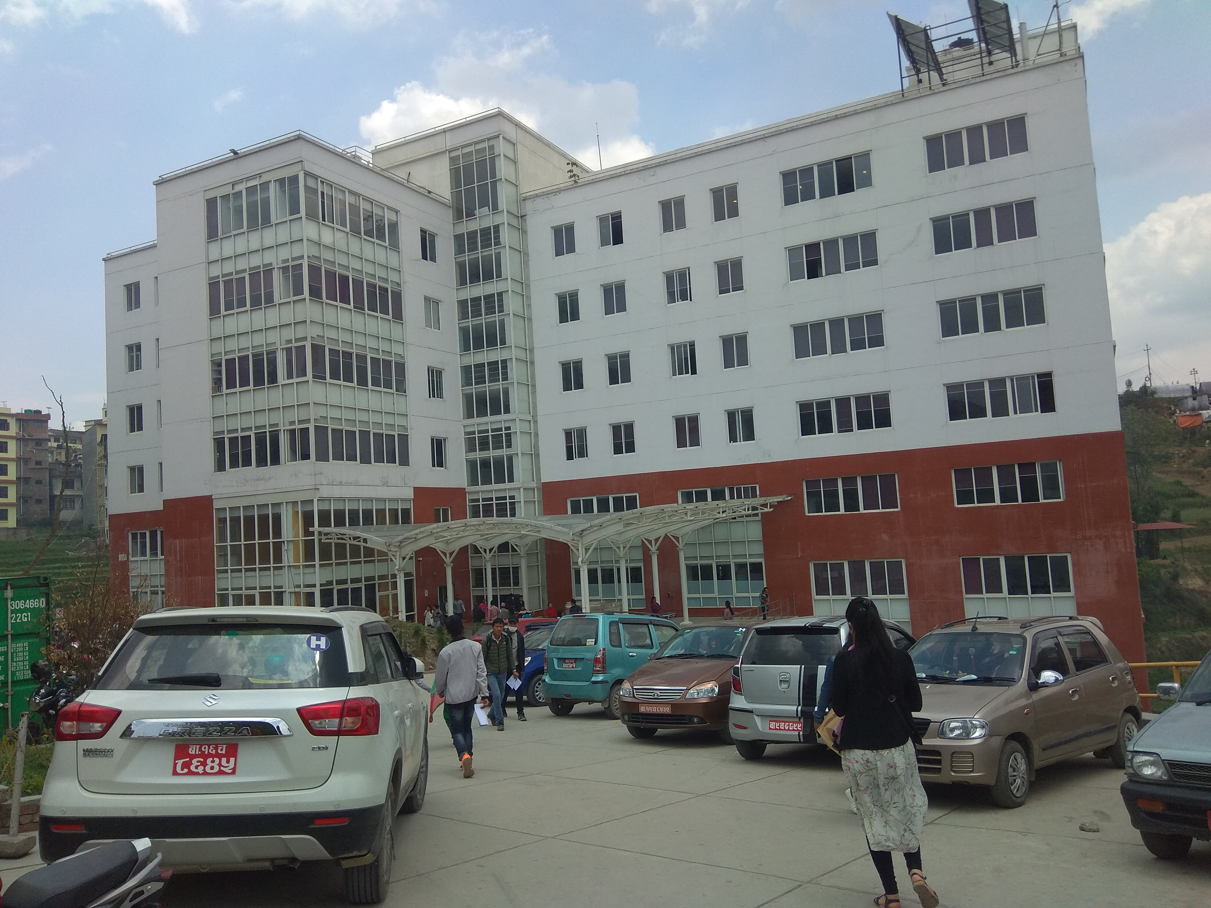 A part of Dhulikhel Hospital